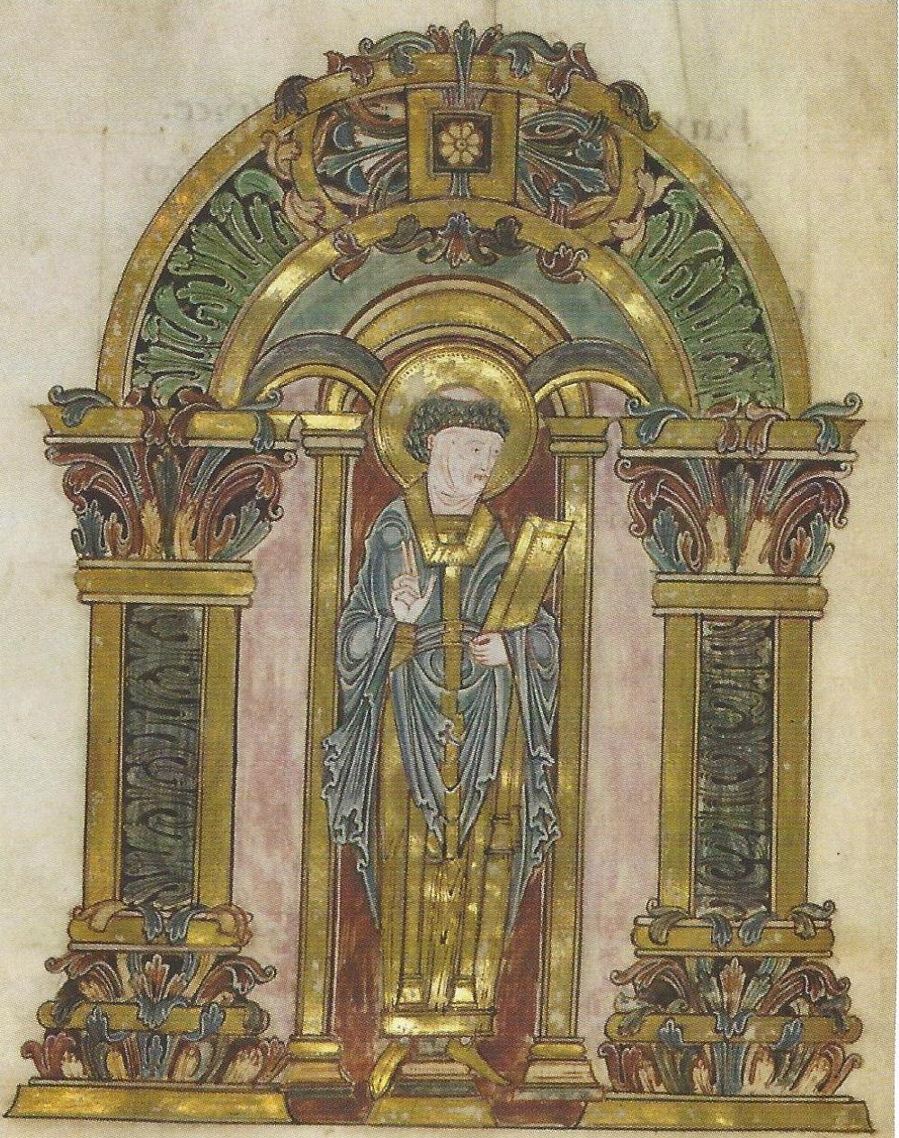 St Swithun, Benedictional of Æthelwold, London, BL, Ms Add. 19598, Fol 90V